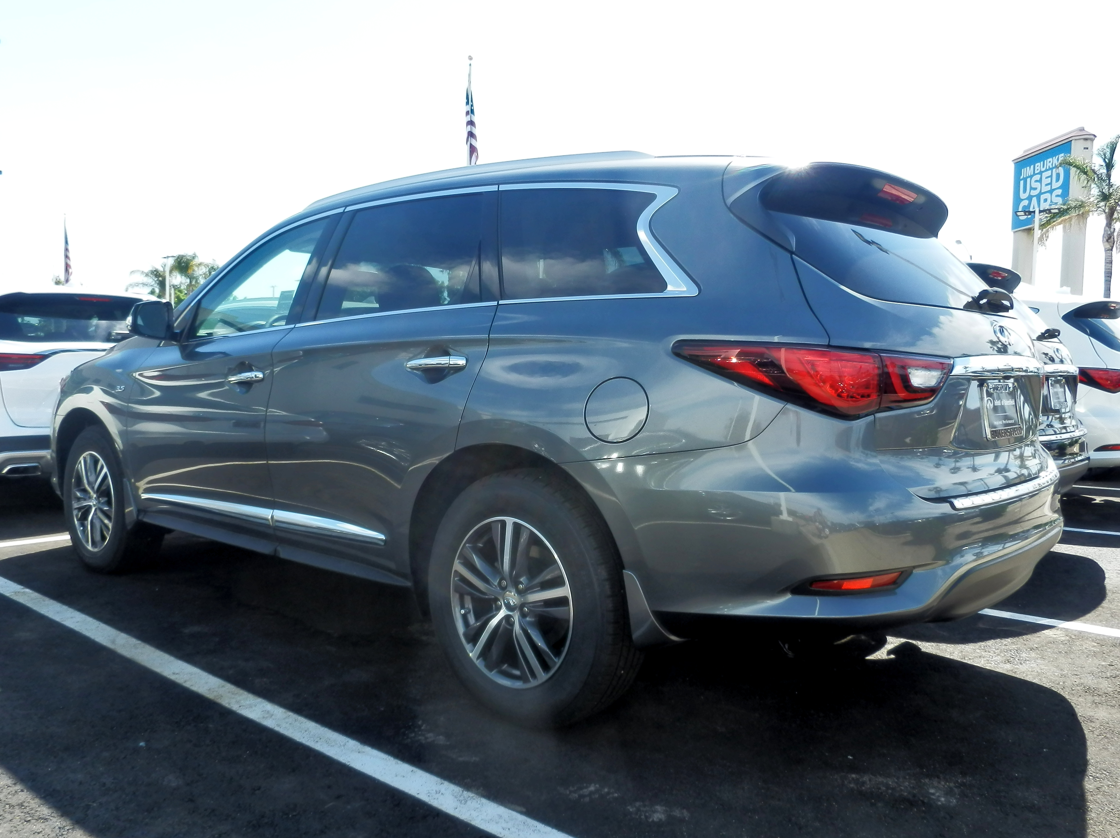 Infiniti QX60 in Bakersfield